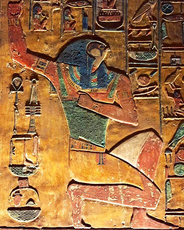 he Souls of Pe mentioned in the Pyramid Texts refer to the ancestor of the ancient Egyptian kings